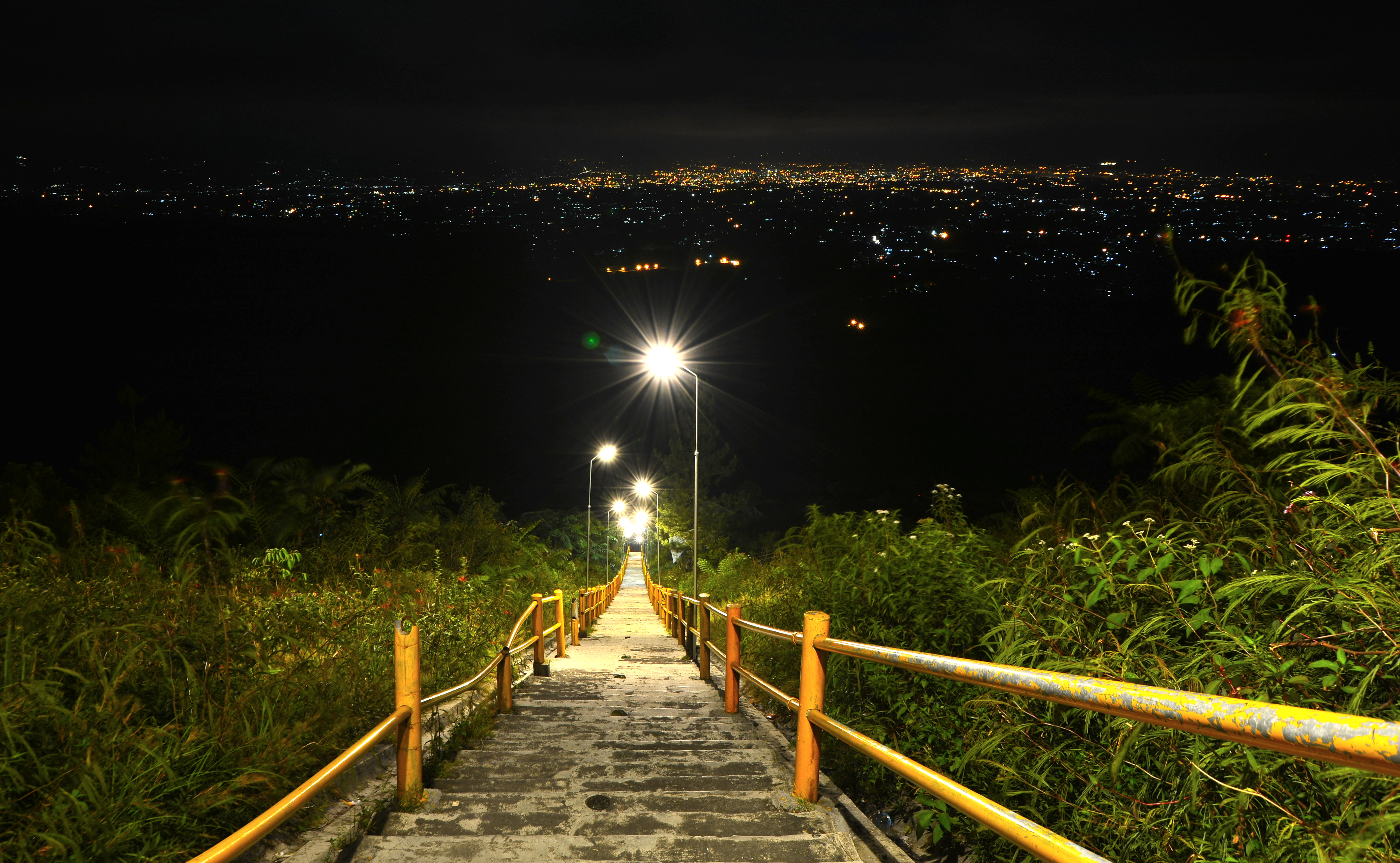 Galunggung mountain stairs at night